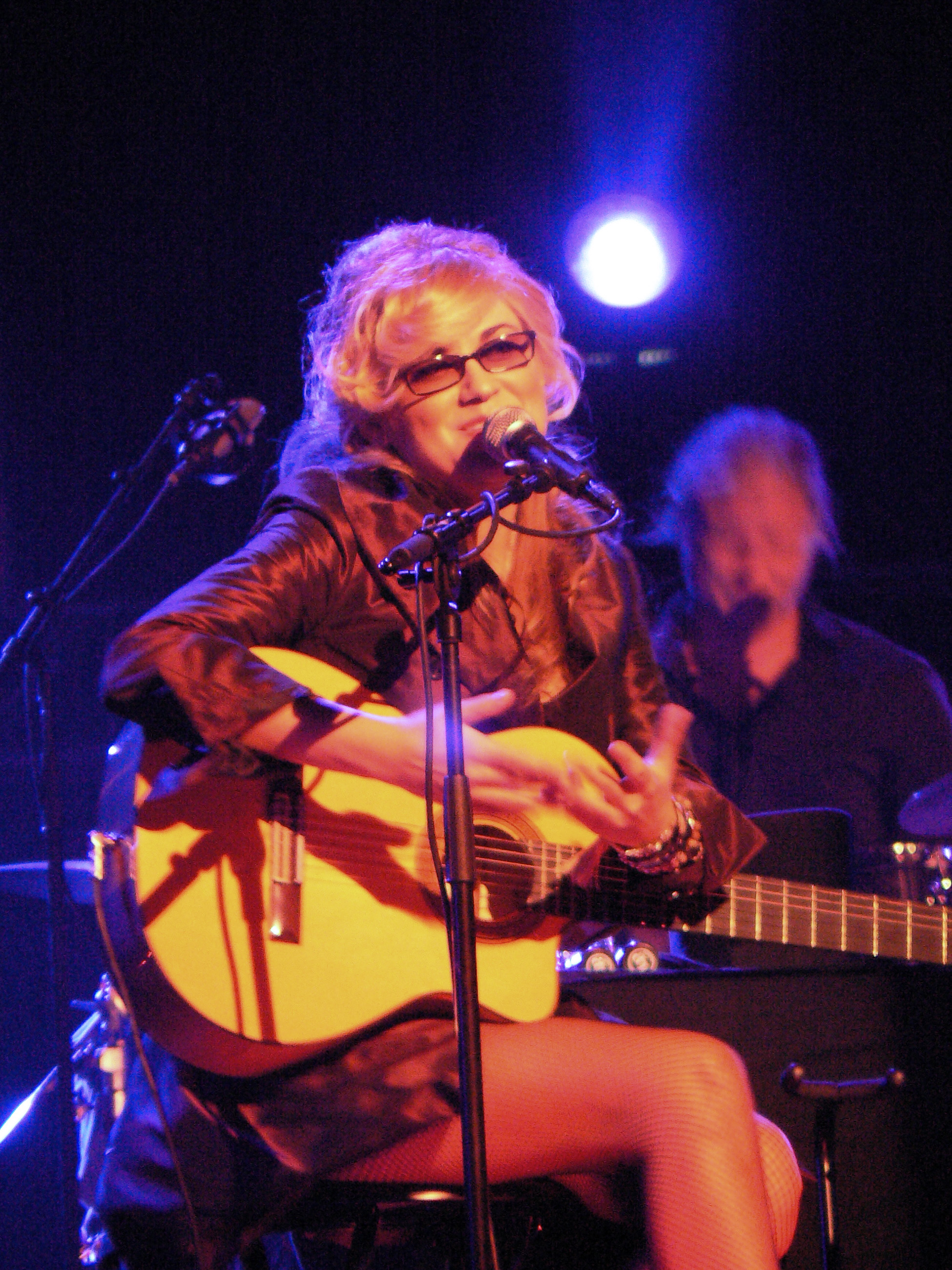 VVAA North Sea Jazz Night @ Ahoy Rotterdam on Thursday, July 9th 2009.